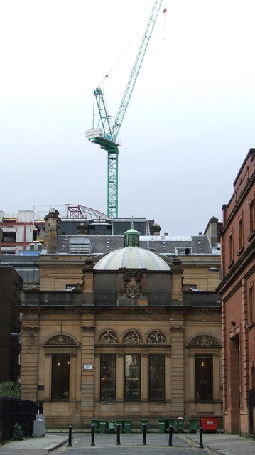 Virginia Place. The rear of the former Union Bank of Scotland which now houses the Corinthian restaurant, the grand interior of which can be seen here 1057177.